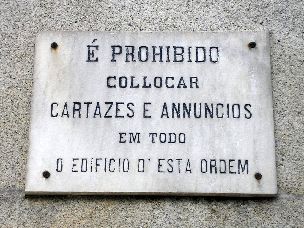 Portuguese sign in Porto, writen before 1911 spelling reform.